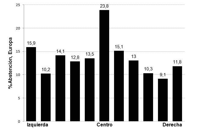 Abstention by ideology, source: 'A. Bosch & L. Orriols 'Ciència Política per a principiants, p. 62